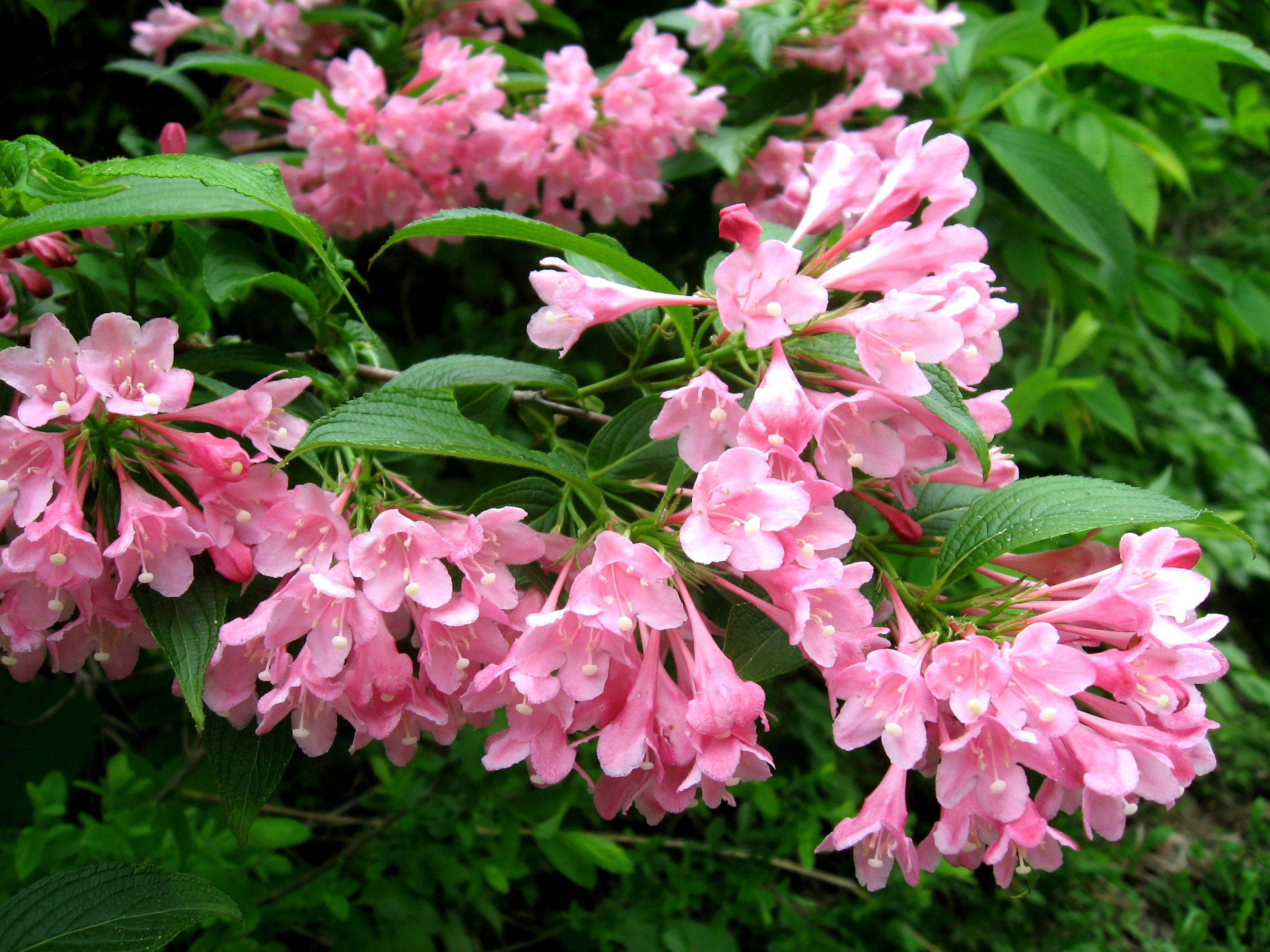 Weigela hortensis, Aizu area, Fukushima pref., Japan